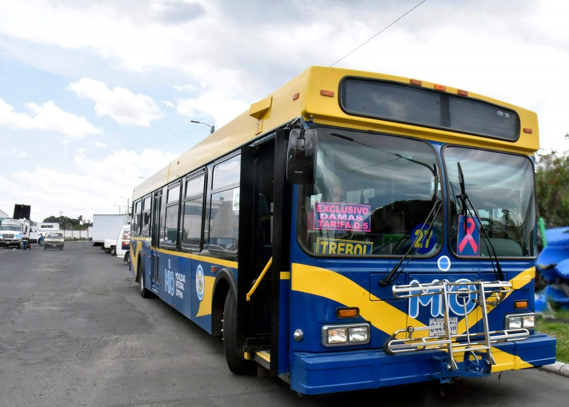 Urban Bus in a city of Guatemala